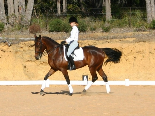 A Standardbred horse going nicely in dressage.